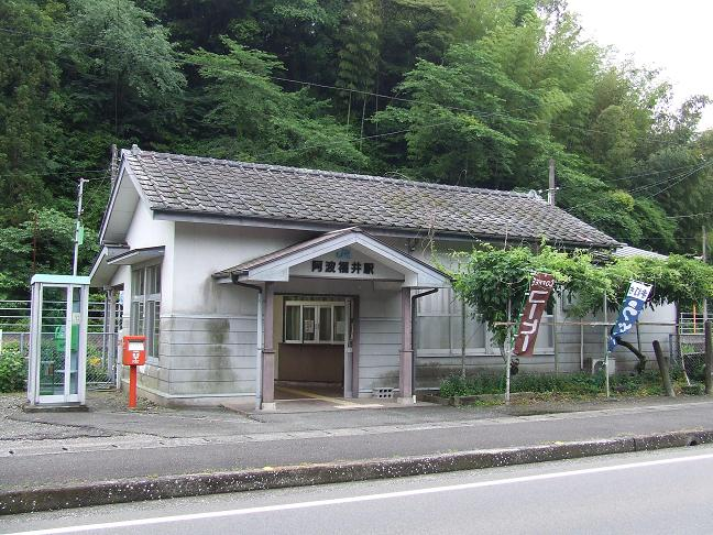 Awa-Fukui Station on Mugi Line